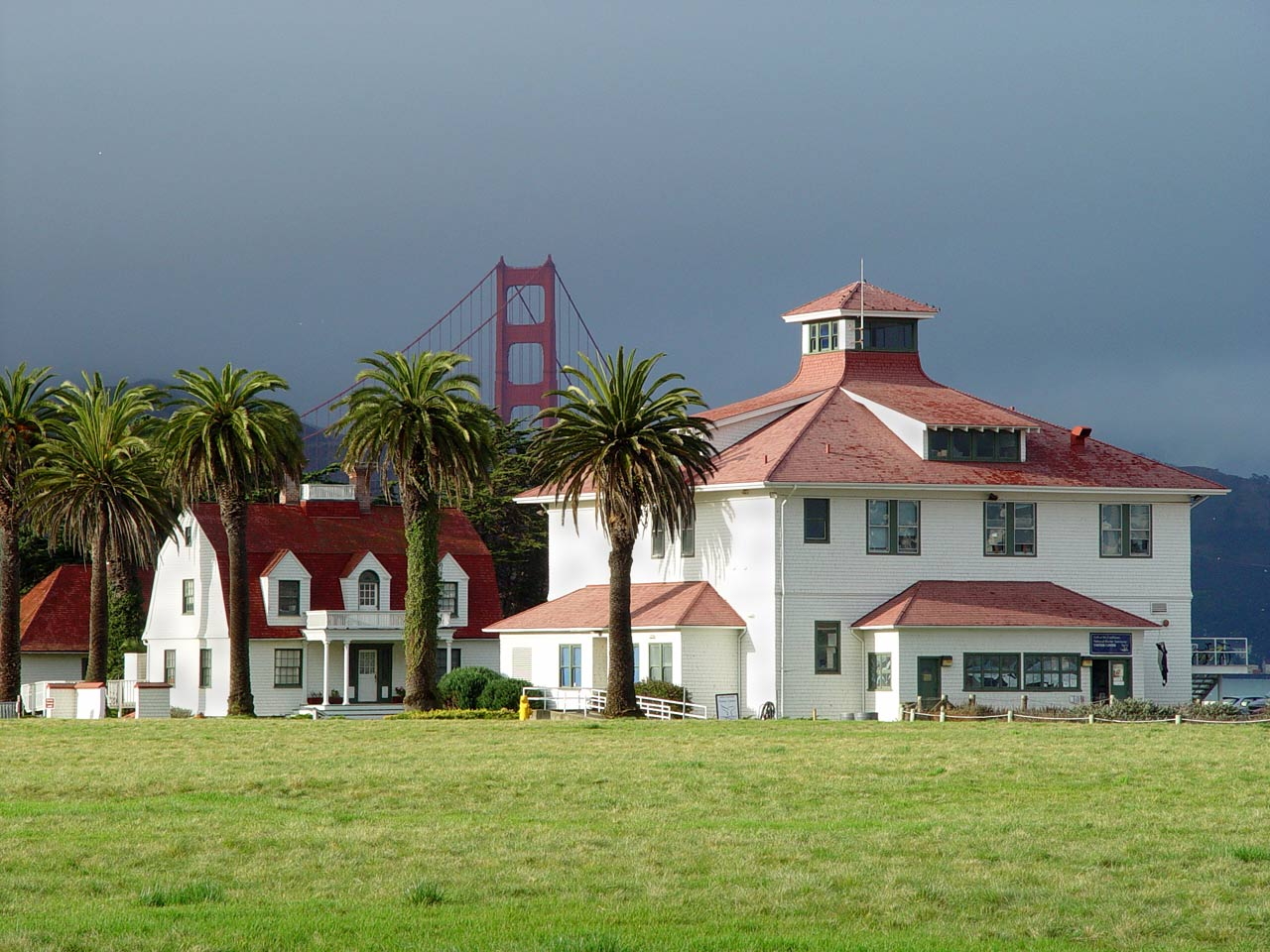 Old Coast Guard Station in Presidio of San Francisco